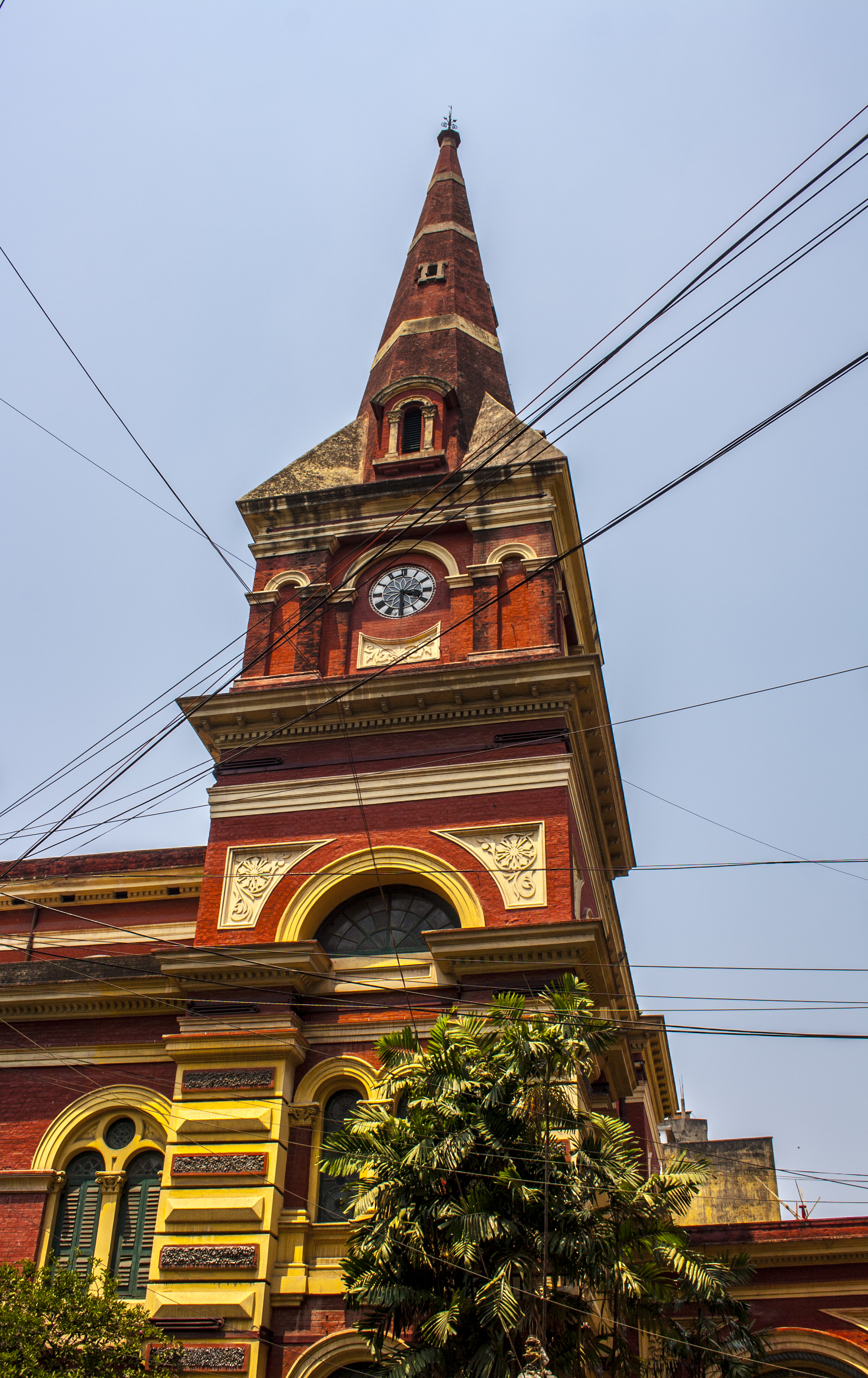 Magen David Synagogue is located at the junction of Brabourne Road and Canning Street in Kolkata and was built in 1884 by Elias David Joseph Ezra.